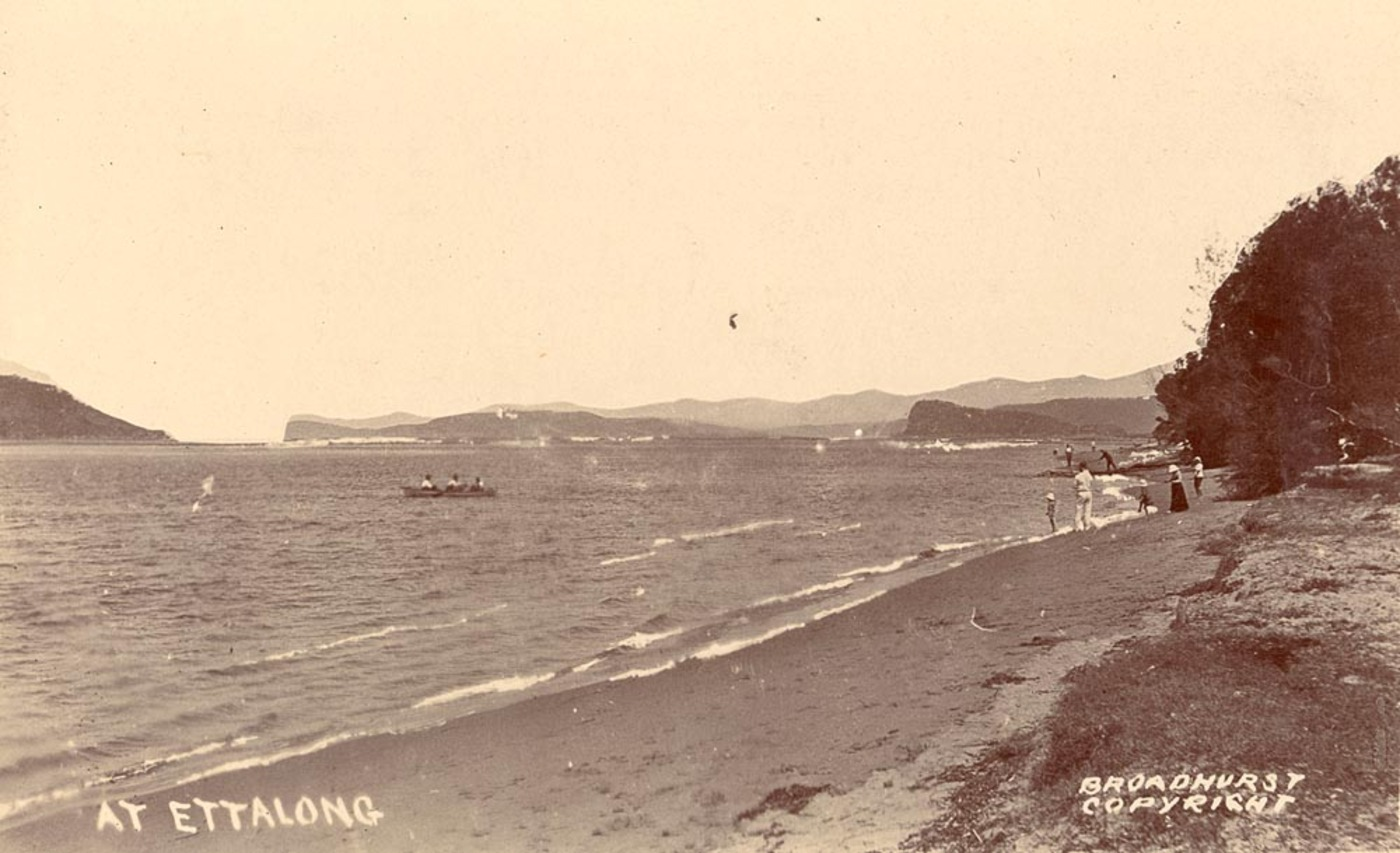 At Ettalong